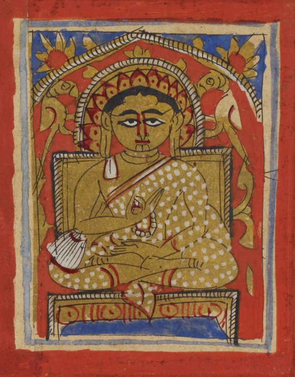 Miniature of Gautamasvāmin seated, in the typical Śvetāmbara monastic dress and holding a rosary from 1487, Śrīpāla-kathā by Ratnaśekhara: edifying poem of the Jain Śvetāmbara tradition. In Prakrit with some Gujarati. (British Library Or 2126A)